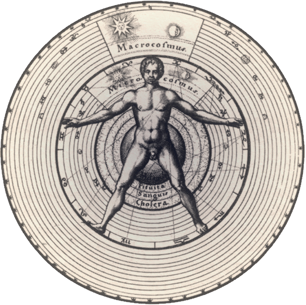 A png version of a Robert Fludd's 16th century woodcut "Vitruvian man" derived from